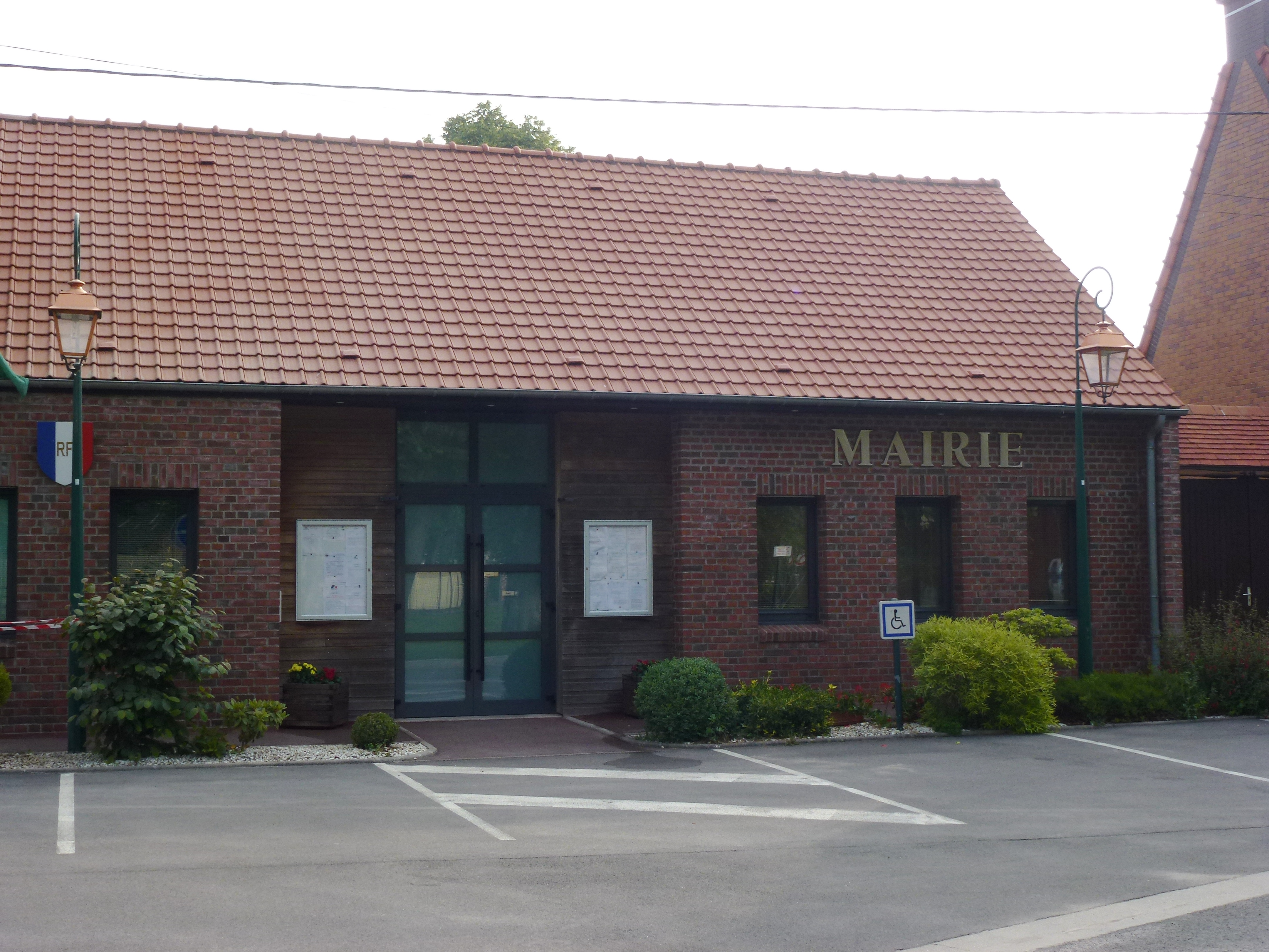 Rely (Pas-de-Calais) mairie